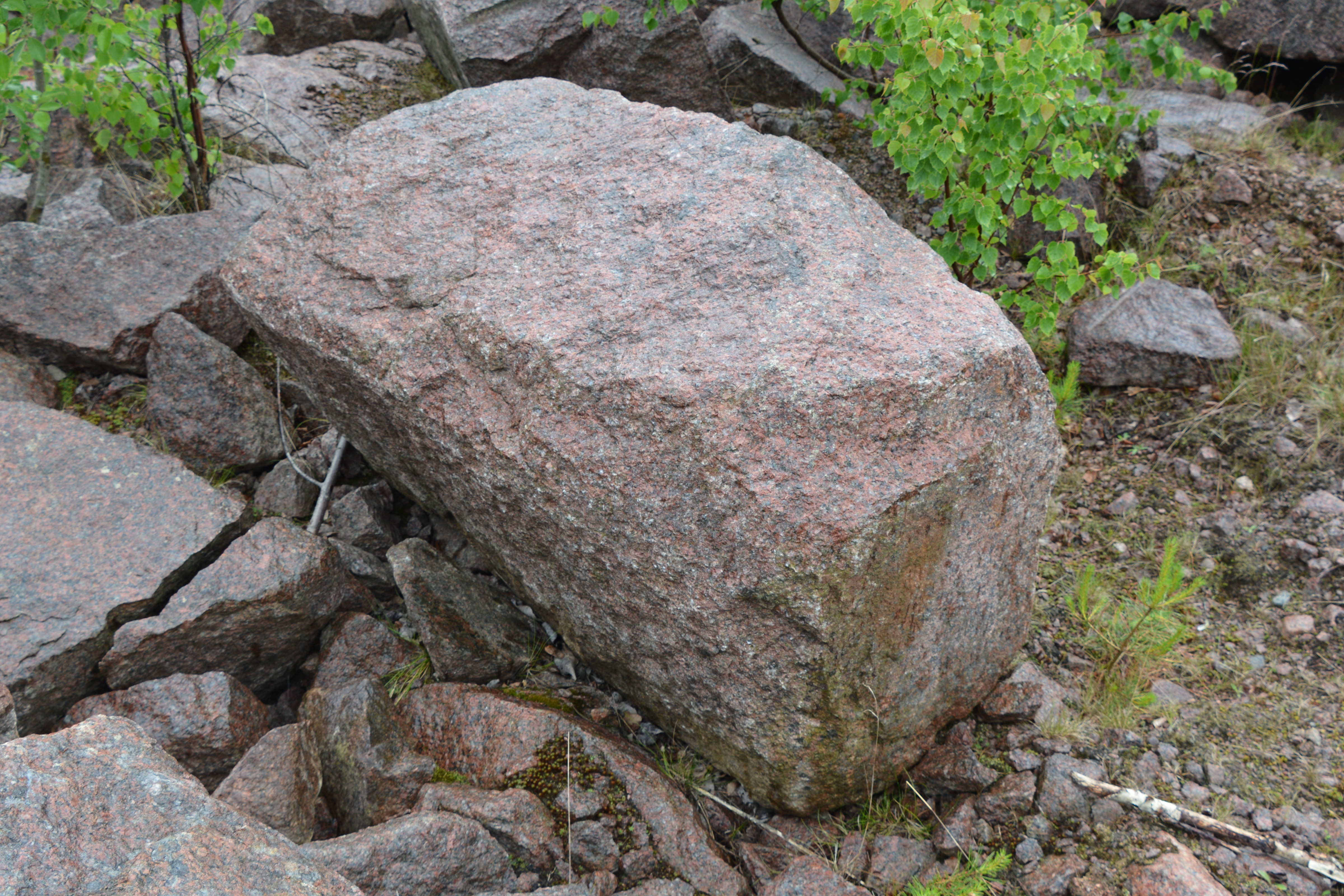 Block av götemargranit, Kråkemåla stenbrott, Sverige